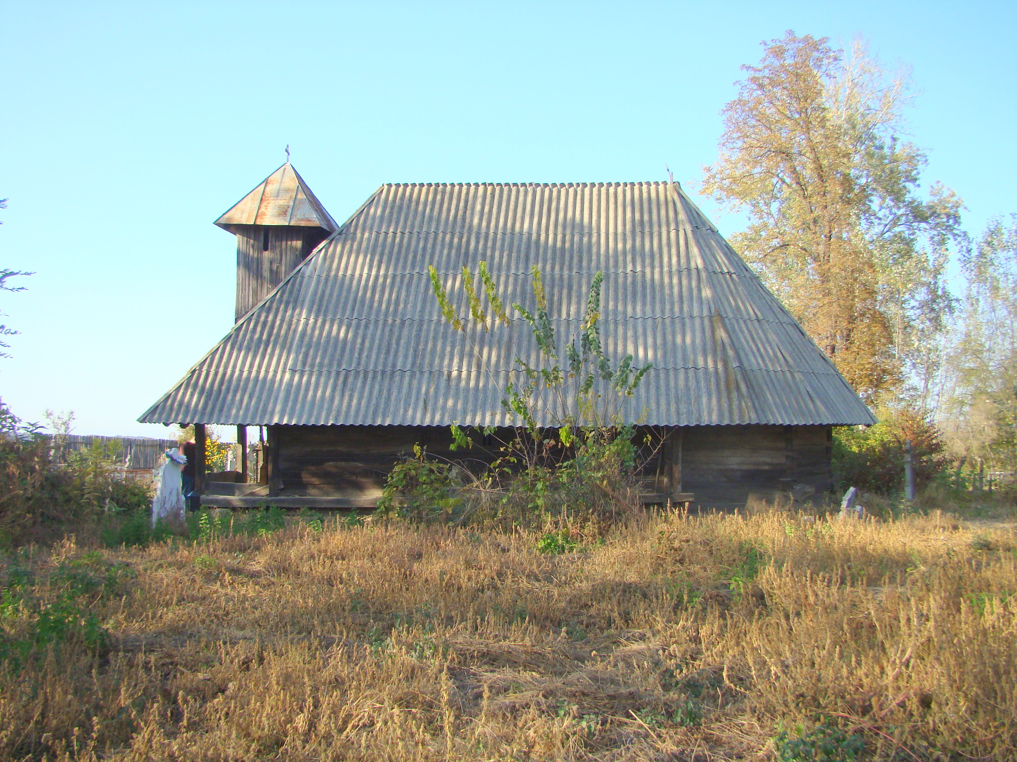 Wooden church in Căpățânești, Mehedinți county, Romania